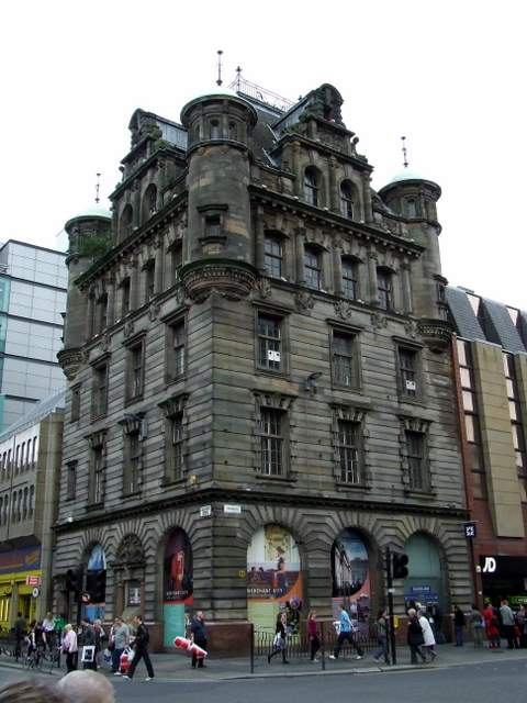 Trongate at Glassford Street. Former National Bank of Scotland building on the edge of Glasgow's Merchant City area. Opened in 1903, designed by Thomas Purves Marwick. See also 975665